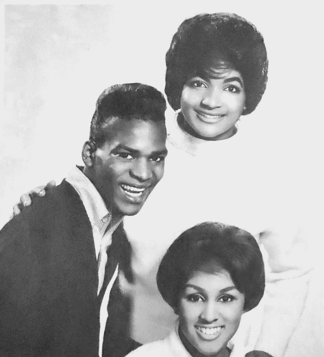 Photo of the vocal group, Bob B. Soxx and the Blue Jeans.